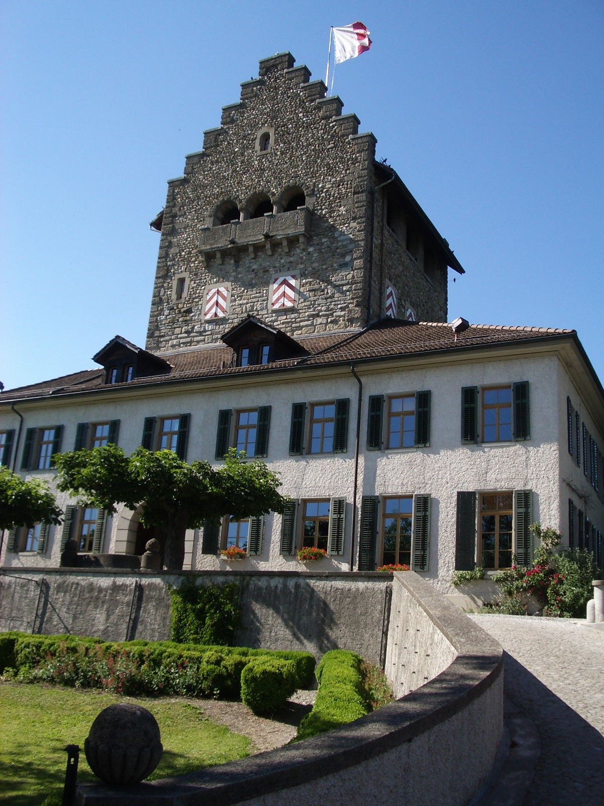 Uster ZH, Switzerland